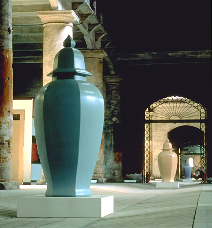 Photograph of Perfect Vehicles by Allan McCollum